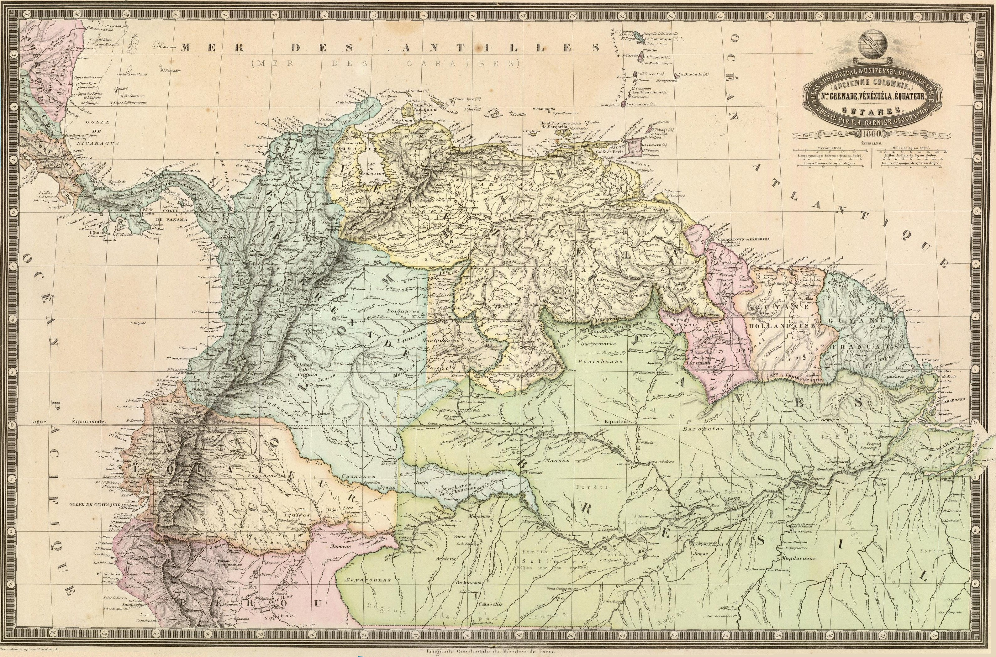 Close up of Map of South America focusing on the Republic of the New Granada.